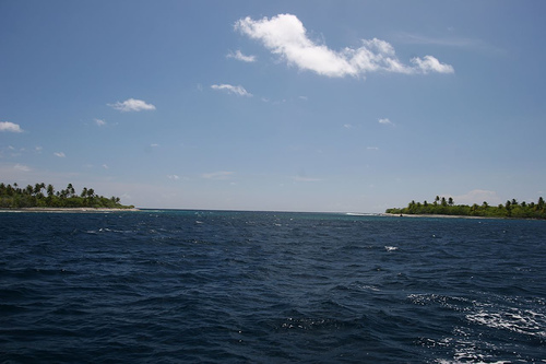 Lagoon entrance of Ahe Atoll, Tuamotu Archipelago, French Polynesia